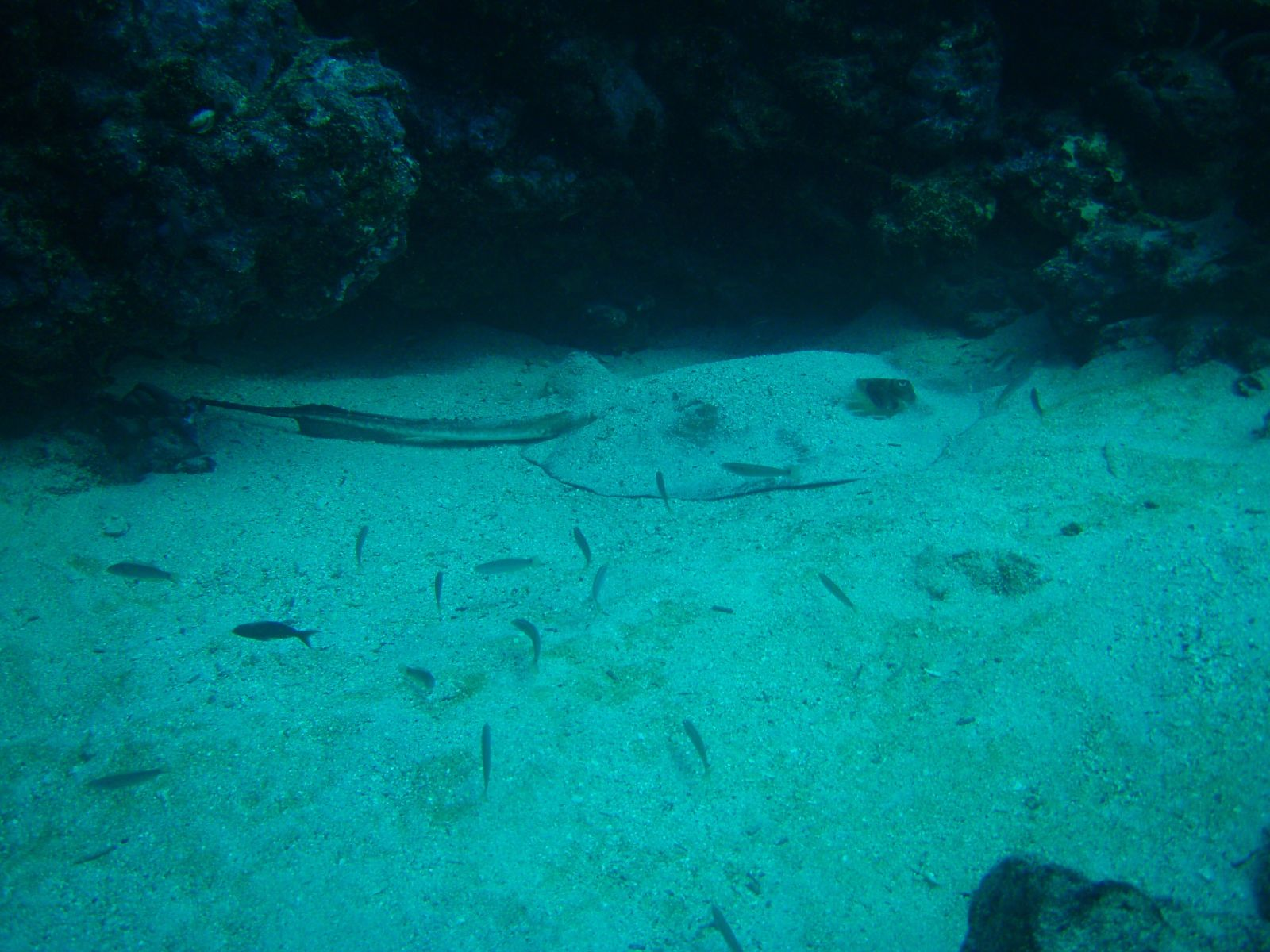 Diamond stingray (Dasyatis dipterura) off the Galapagos.